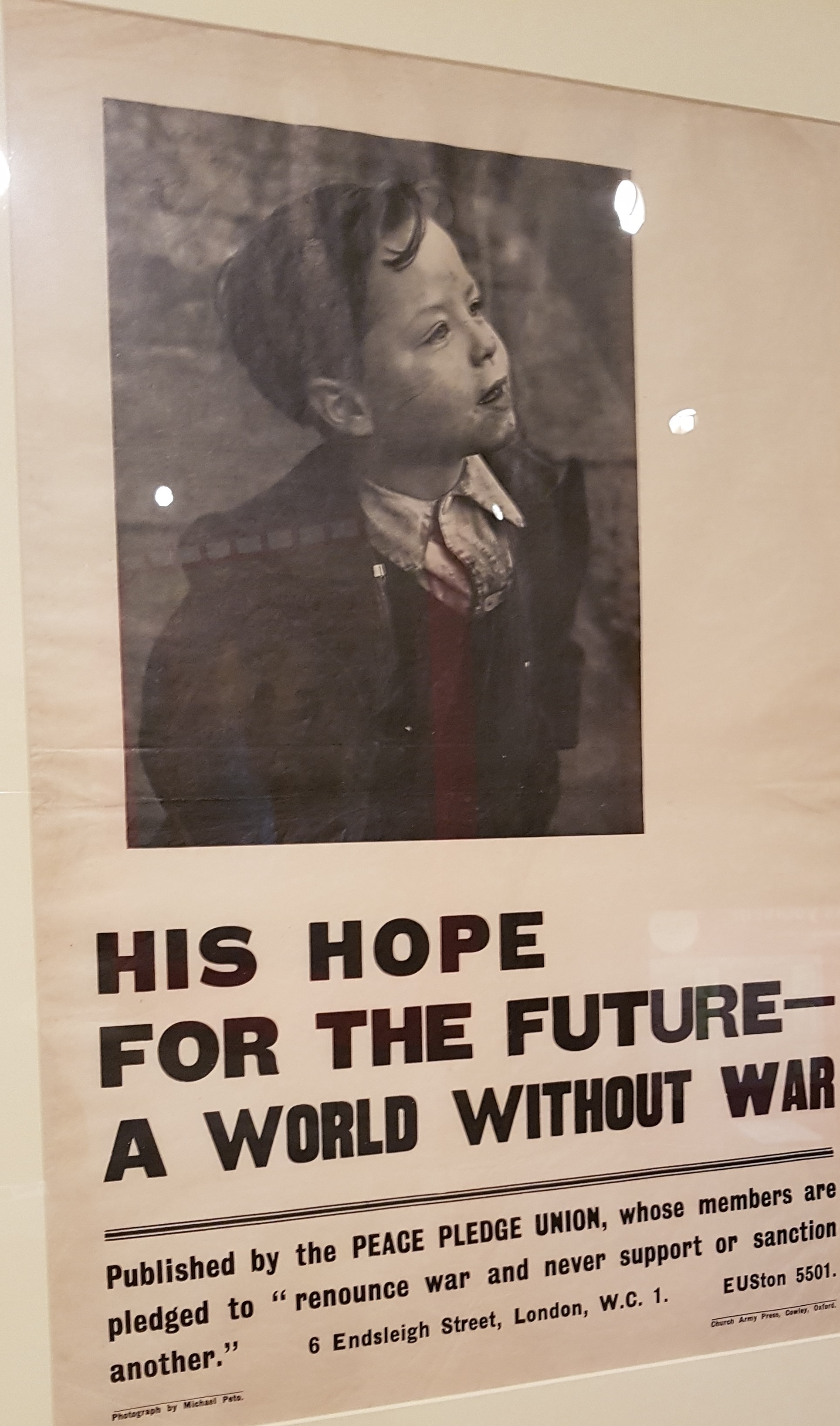 Peace Pledge Union poster at the People's History Museum, Manchester